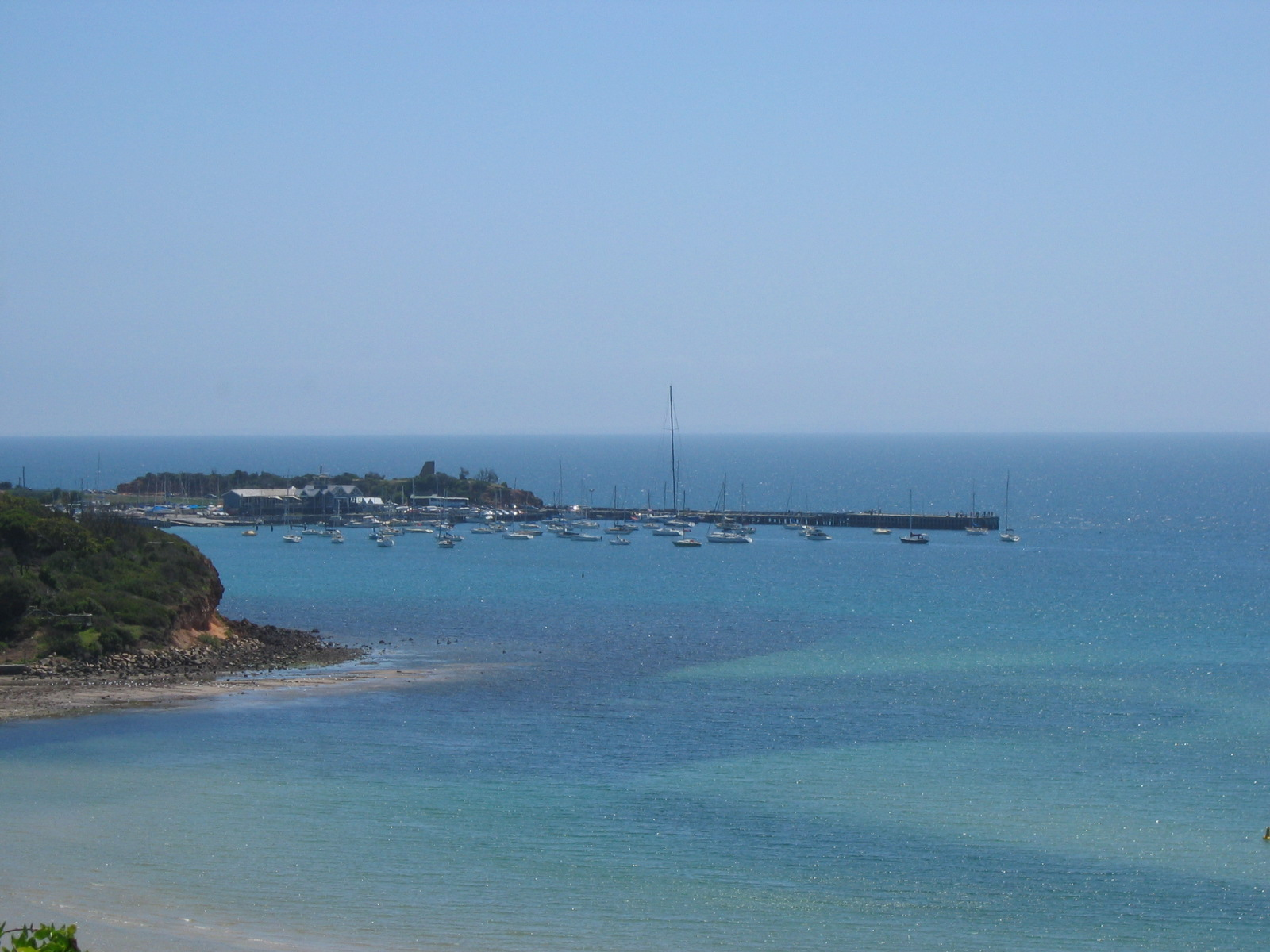 Mornington Yacht Club seen from Mills Beach, Mornington Peninsula, Victoria.